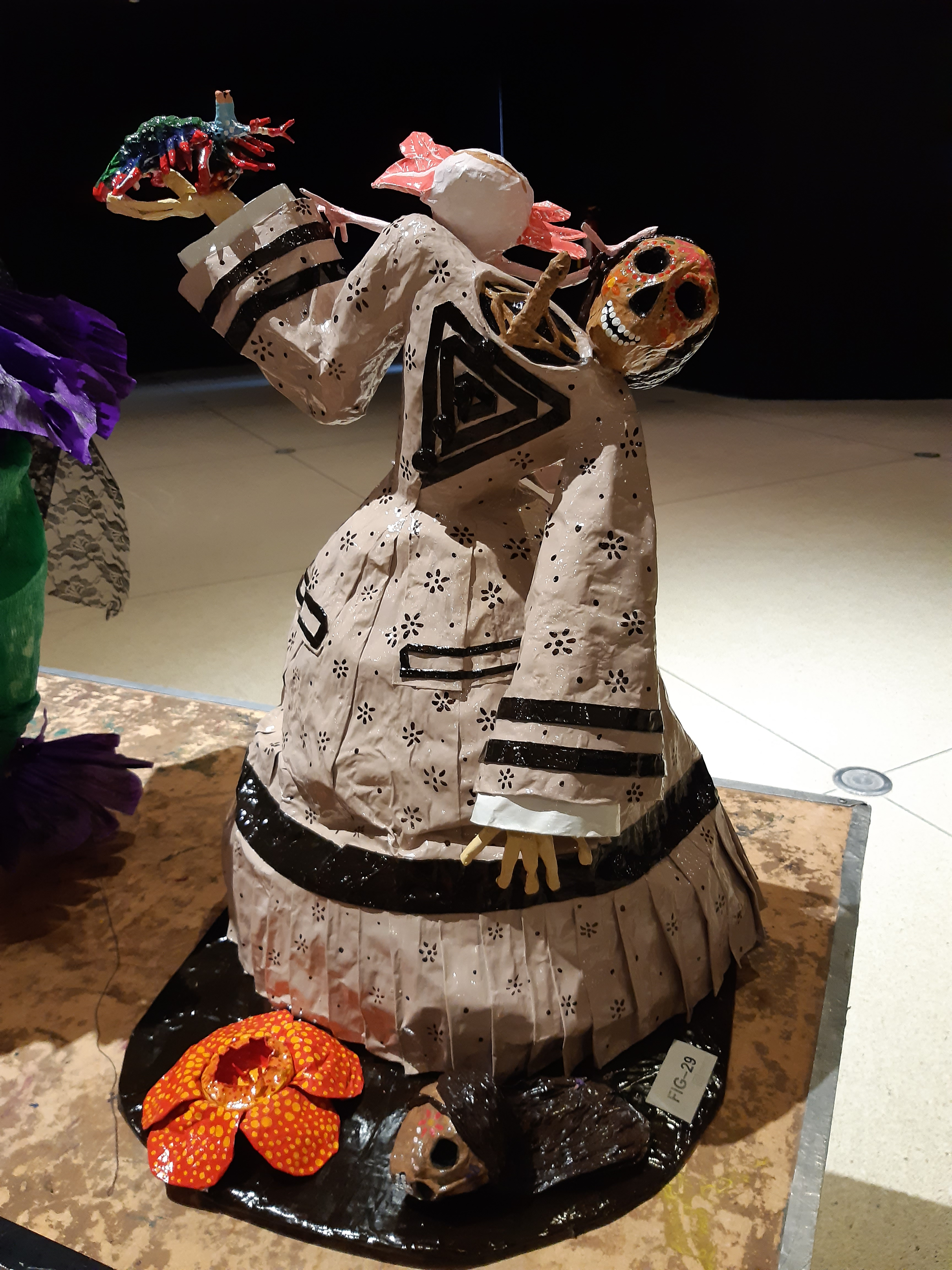 Carmen y los superhéroes de la Naturaleza, by Claudia Colosio García Papier mâché sculpture depicting a Catrina and living organisms known for their extraordinary abilities, exhibited at the Interactive Museum of Science and Arts in San Luis Potosí (San Luis Potosí, Mexico), on the occasion of a temporary exhibition in October-November 2019 mixing living organisms with extreme abilities and the Day of the Dead. La Catrina is a traditional Mexican figure of this celebration. Among other things, mantis shrimp are capable of firing explosive vapour bubbles at the speed of a rifle bullet, with a power of 1000 newtons. Represented here by the shrimp held at the level of what was the head of the Catrina, with said head now ashore. The axolotl, an iconic animal from Mexico, can repel one of its organs if it is destroyed, including part of its head. Represented here by the replacement head that the axolotl brings to the Catrina. The rafflesia on the ground is the largest flower in the world, which manages to live without stem or root. It has been reduced for the needs of the sculpture. It was added to represent a powerful plant next to the two previous animals.